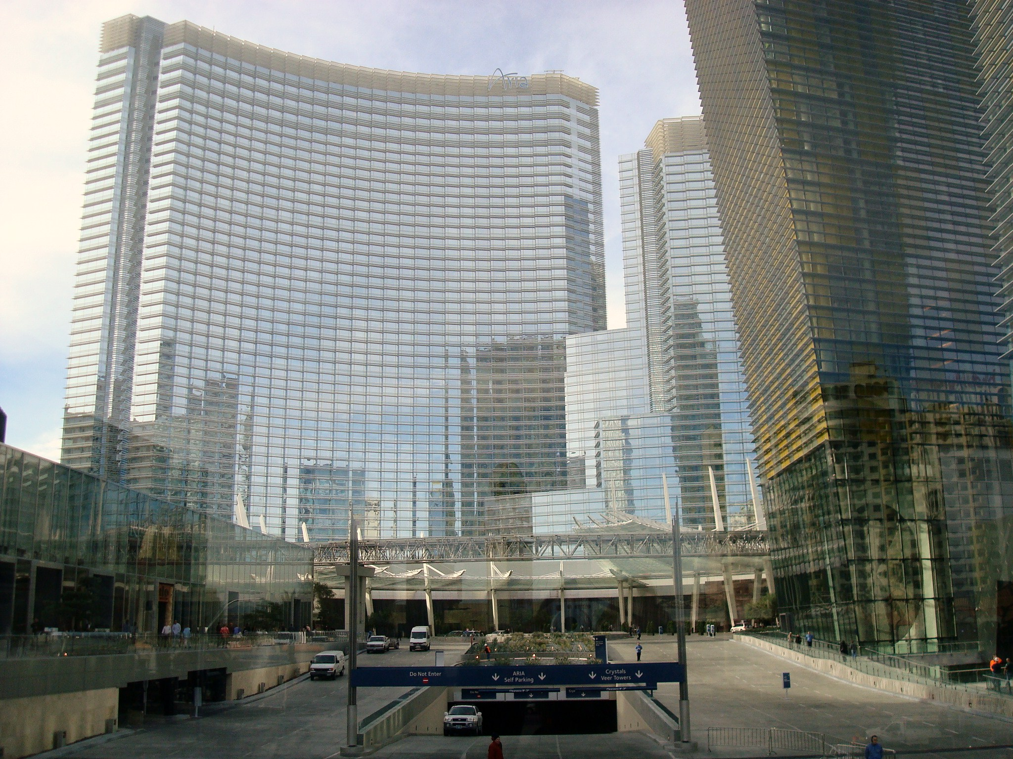 Aria Las Vegas